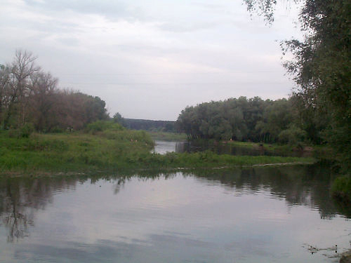 Severskii Donetz